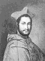 Ranuccio Farnese (1530-1565)